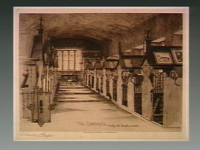 The interior of the library and the old bookcases, Cheltenham. Etching by Gertrude Hayes. Iconographic Collections Keywords: Gertrude E. Hayes